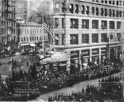 Photomechanical print from a poster titled "WAKE UP AMERICA!" showing the U.S. Navy recruiting station at the United Cigar Stores Company in the Flatiron Building in New York City on 1917-04-19, the day of the "Wake up America" parade. The handwritten inscription in the lower left reads "Wake up America Day Parade Apr. 19, 1917 / United Cigar Stores Co. Flatiron Bldg. New York City". The store's cowcatcher was transformed into a mock fort for the parade. The Library of Congress archival photograph of the poster was cropped to include only the contained photograph.